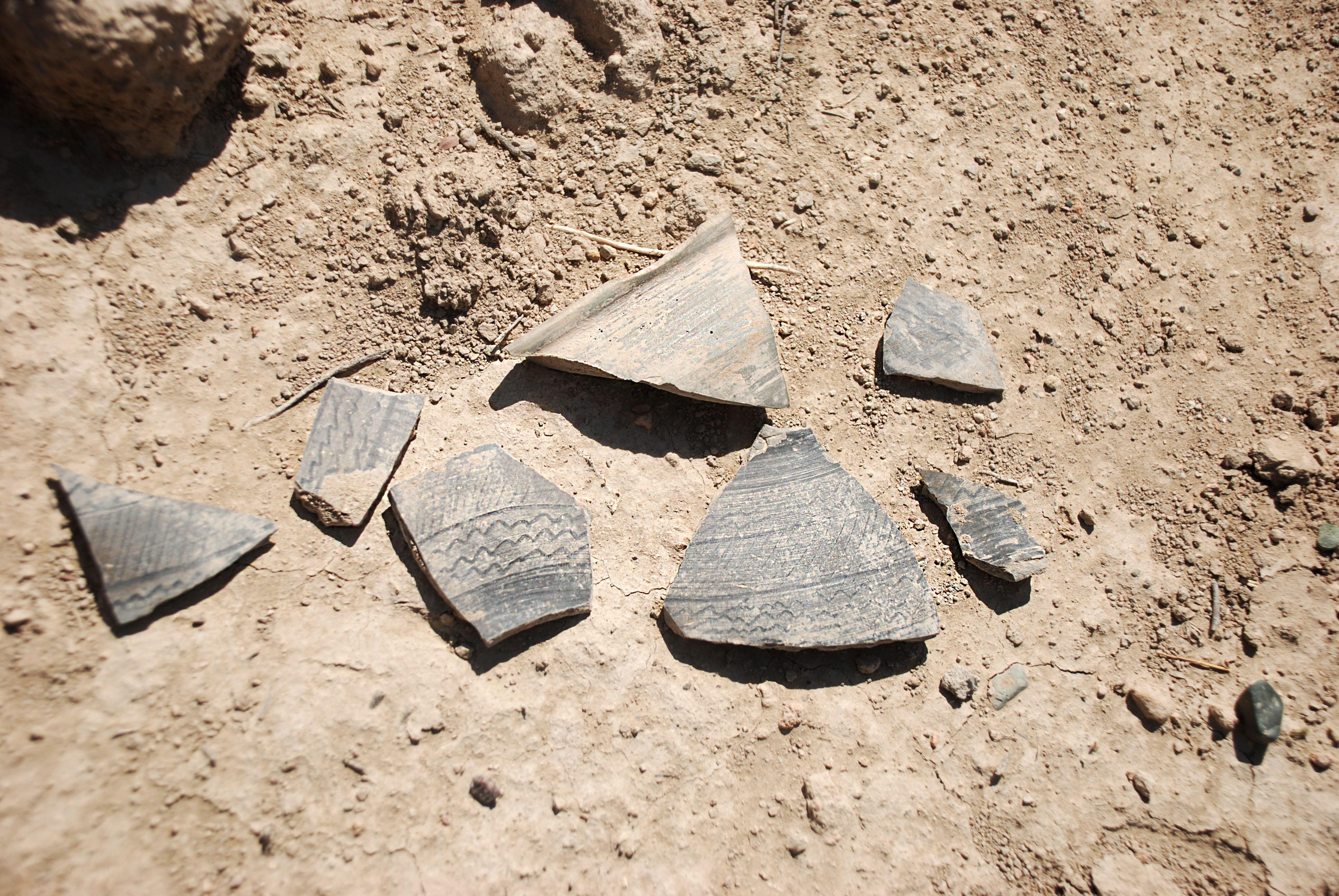 Balkin Tepe, Malard, Shahriyar, Tehran 19-09-2015